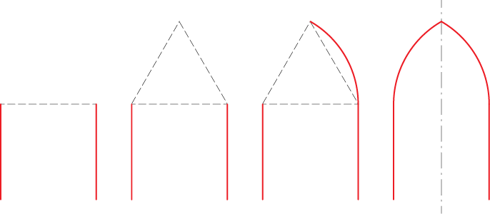 Ogive (geometry)